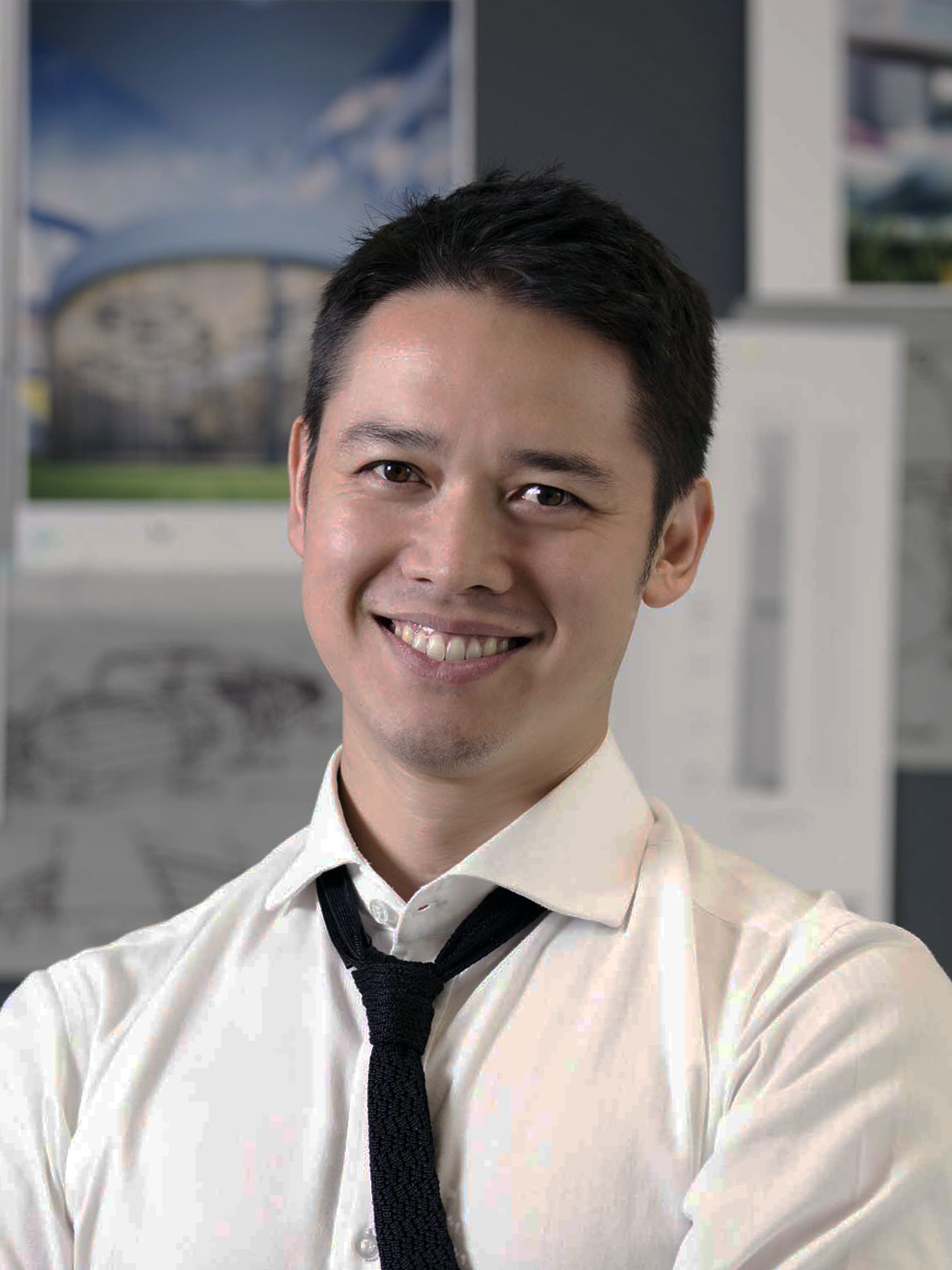 Jason Pomeroy, architect